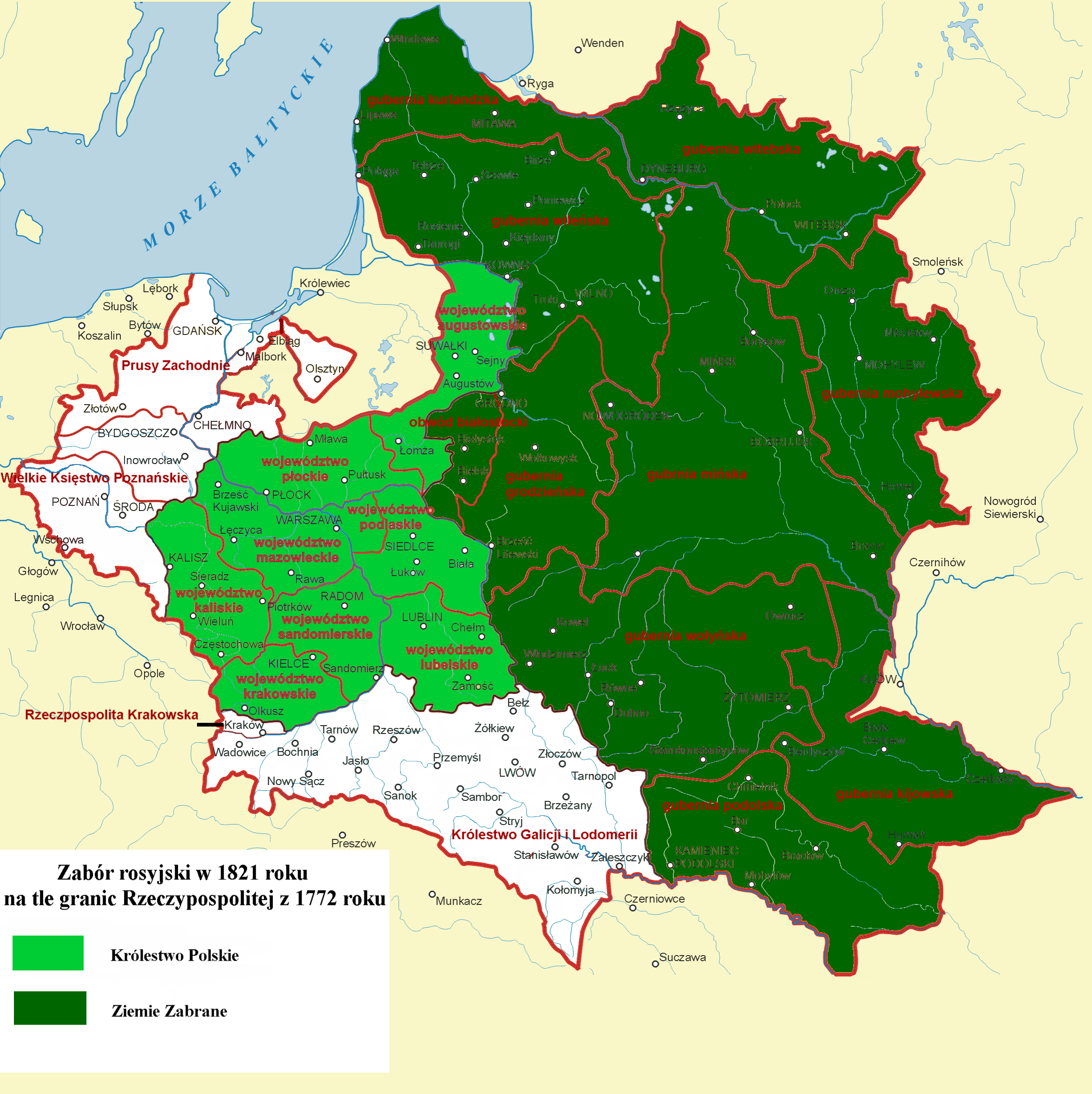 Russian Partition in 1821